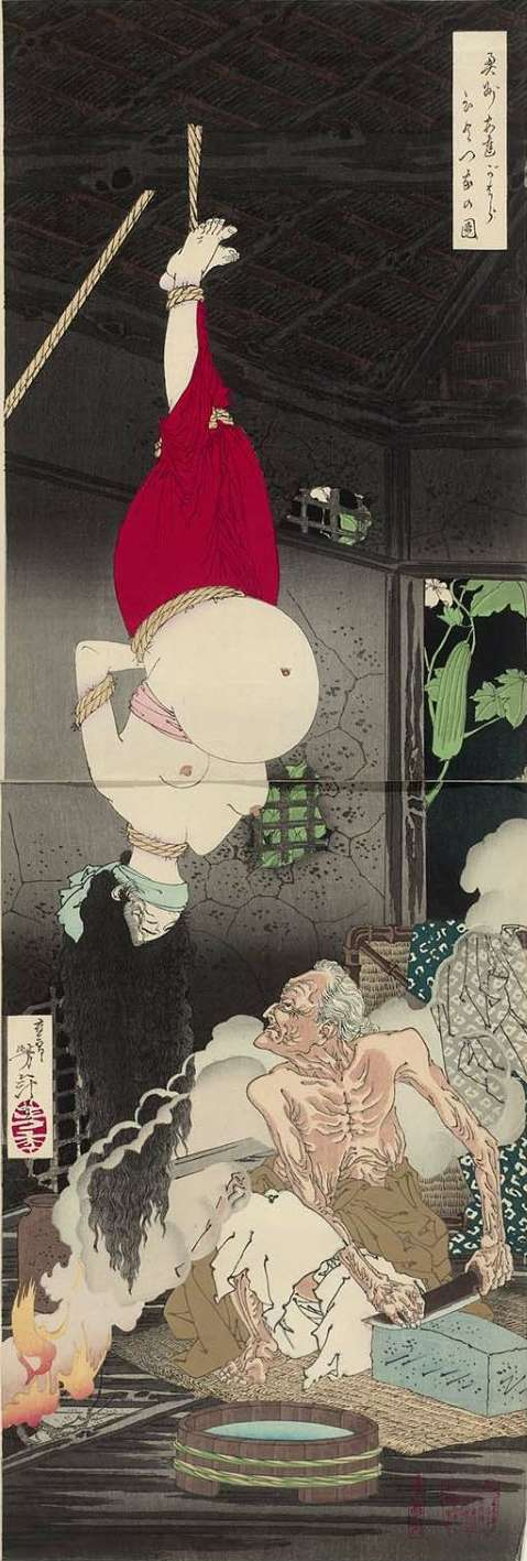 The lonely house, September 1885. The print shows the witch of Adachi-Moor, who according to legend drank the blood of unborn children.